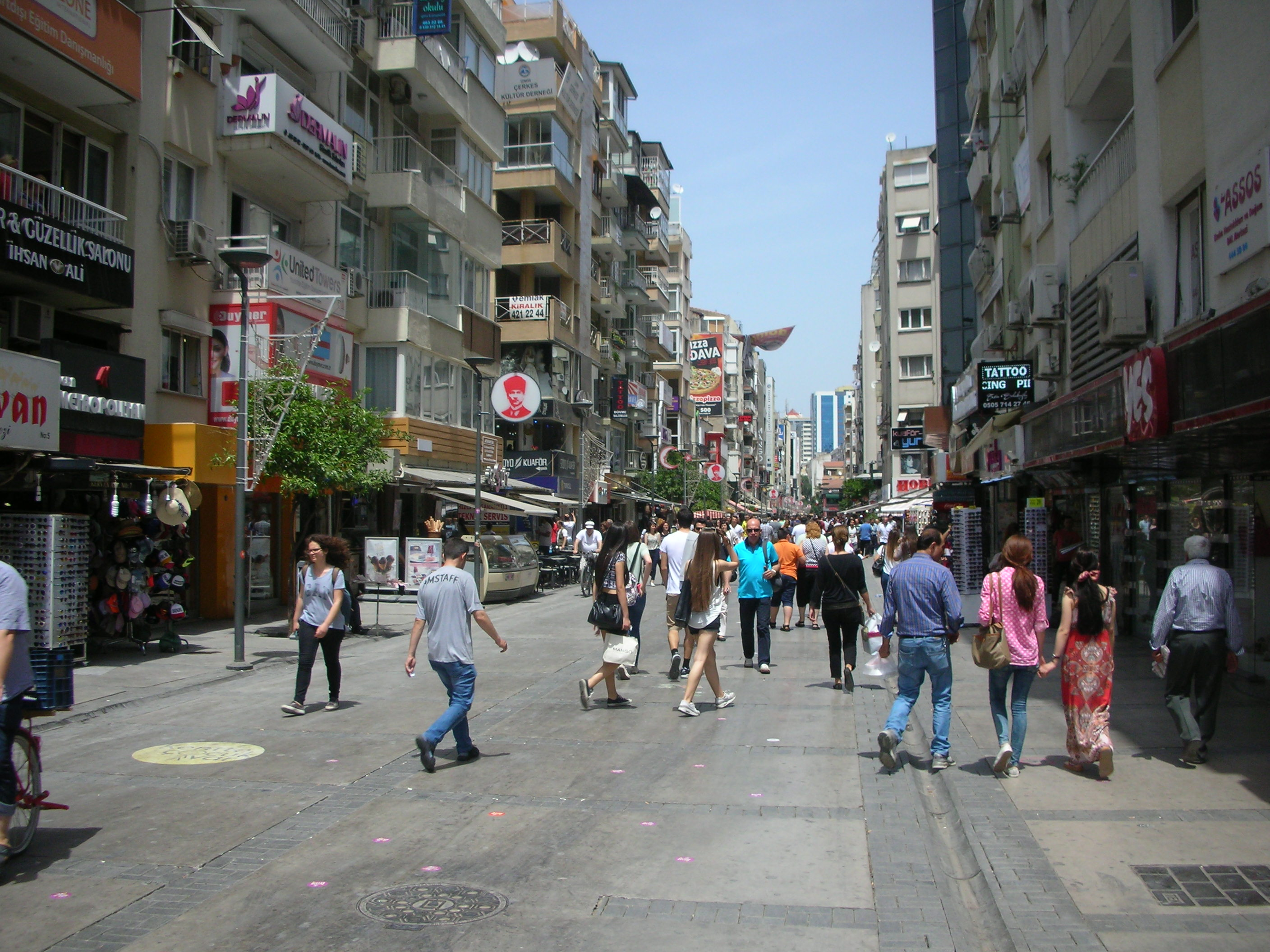 A view of Kibris Sehitleri Street on 16th May, 2015.